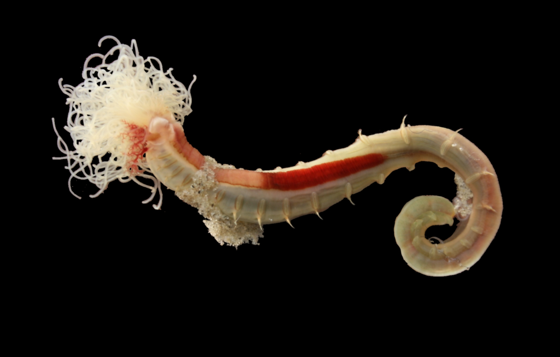 Lanice Conchilega without its tube .